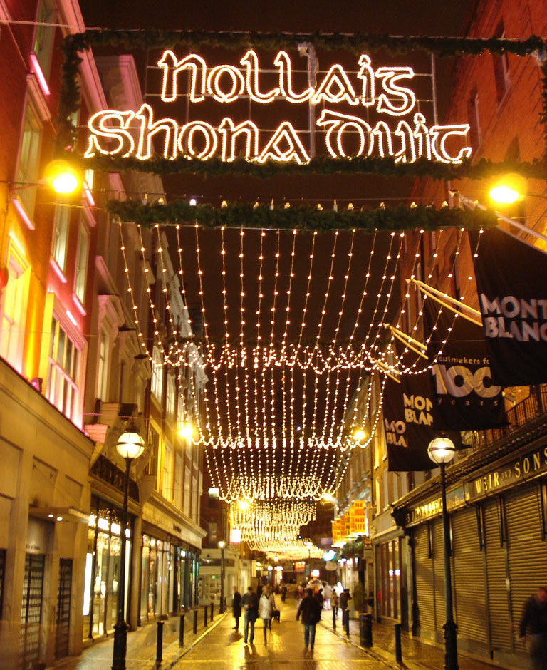 Wicklow Street, Dublin, Ireland. A Christmas greeting in Irish Gaelic